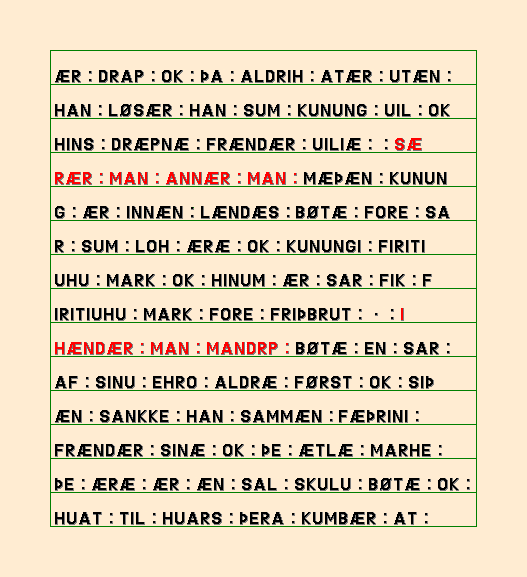 Page from "Skånske lov", a Danish medieval MS written entirely with runes. Here, for the sake of the modern reader, written with Latin letters.